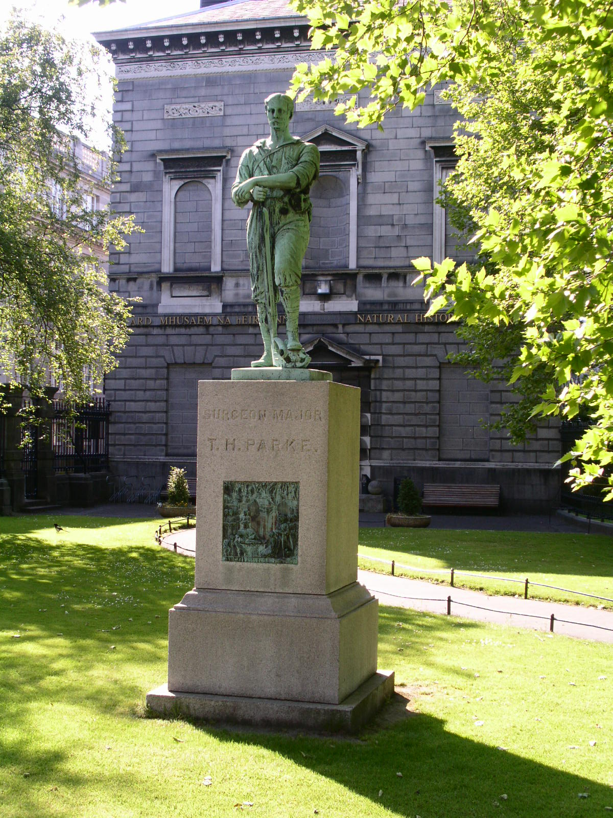 Statue of Thomas Heazle Parke